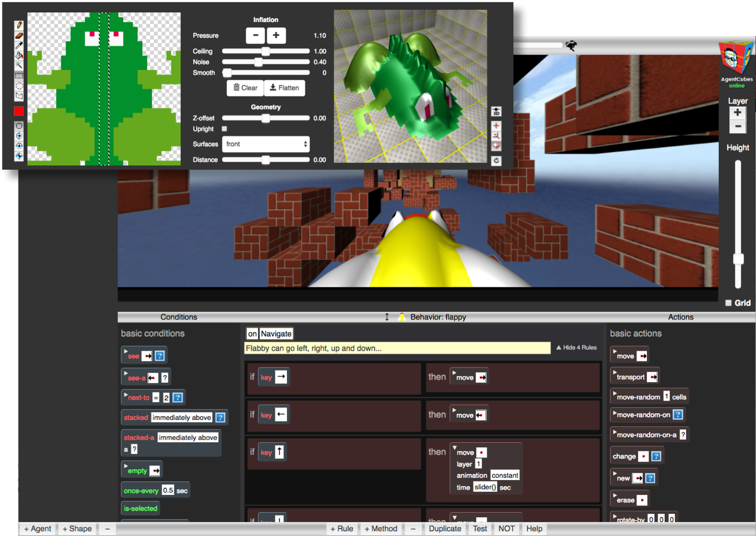 Image of the the user interface of AgentCubes